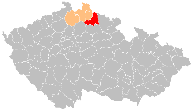 District of Semily